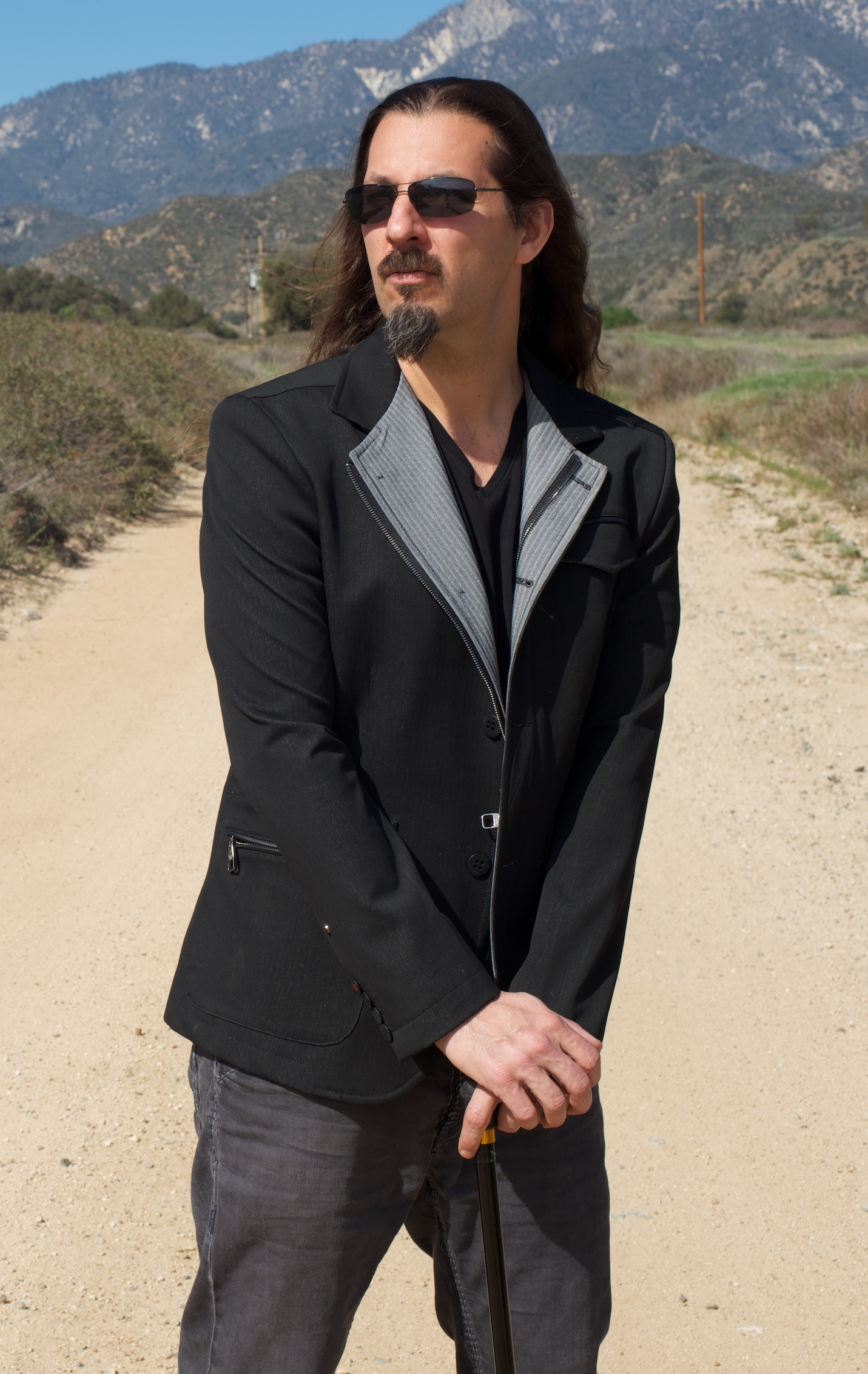 BB Desert Promo Pic - photo by Mike Mesker